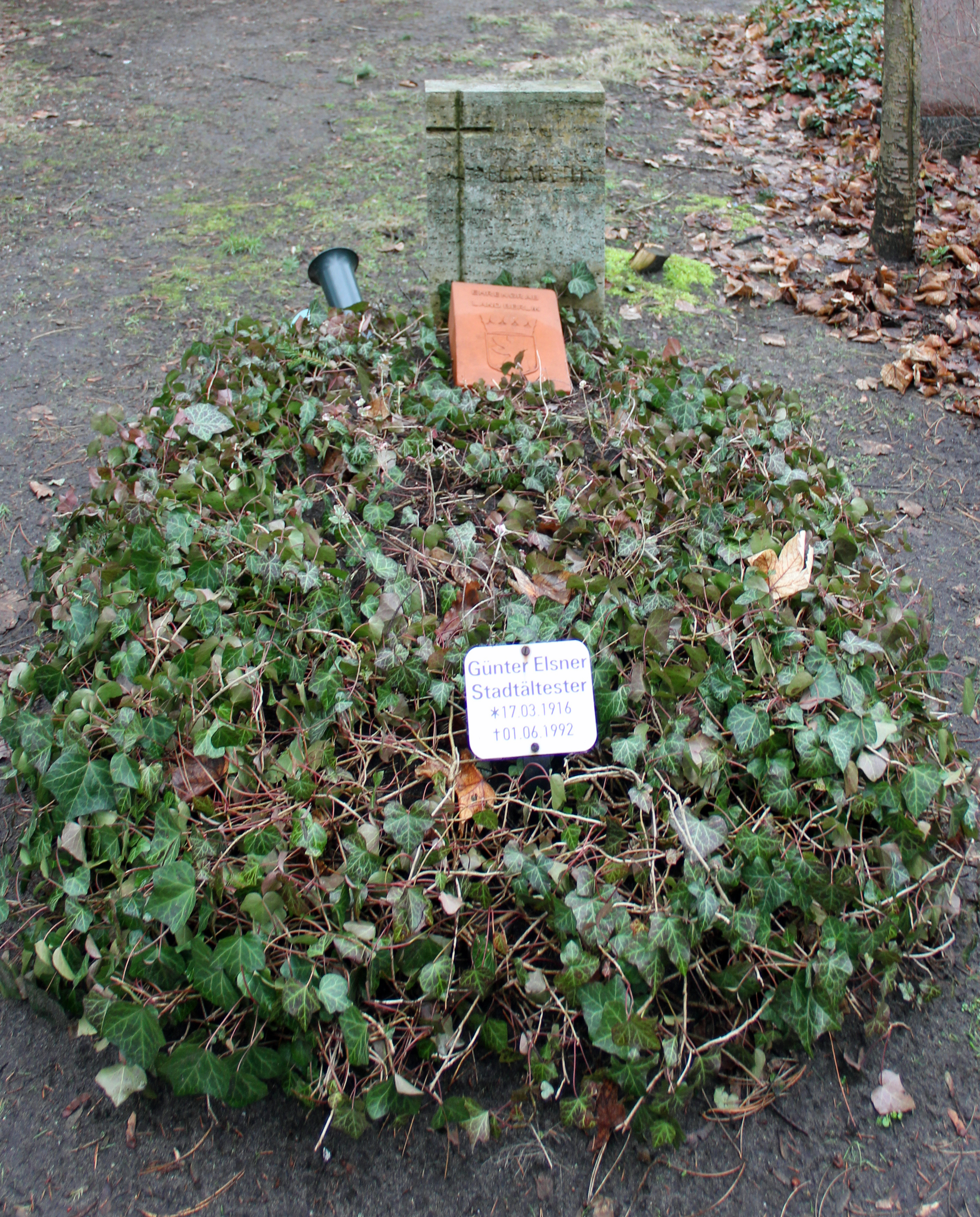 Grave of honor, Günter Elsner, Columbiadamm 122, Berlin-Neukölln, Germany